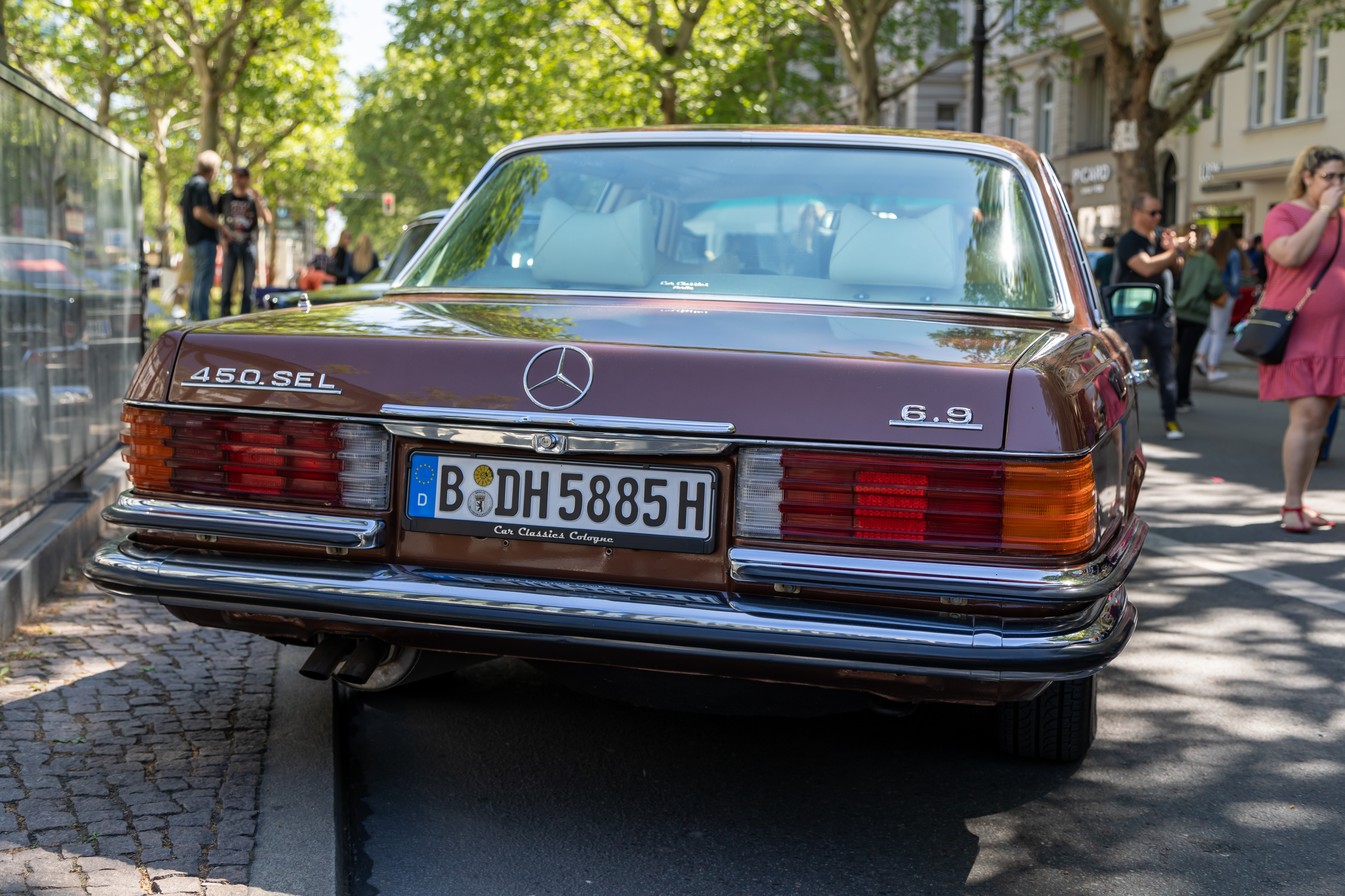 Classic Days Berlin 2019, Kurfürstendamm, Berlin-Charlottenburg